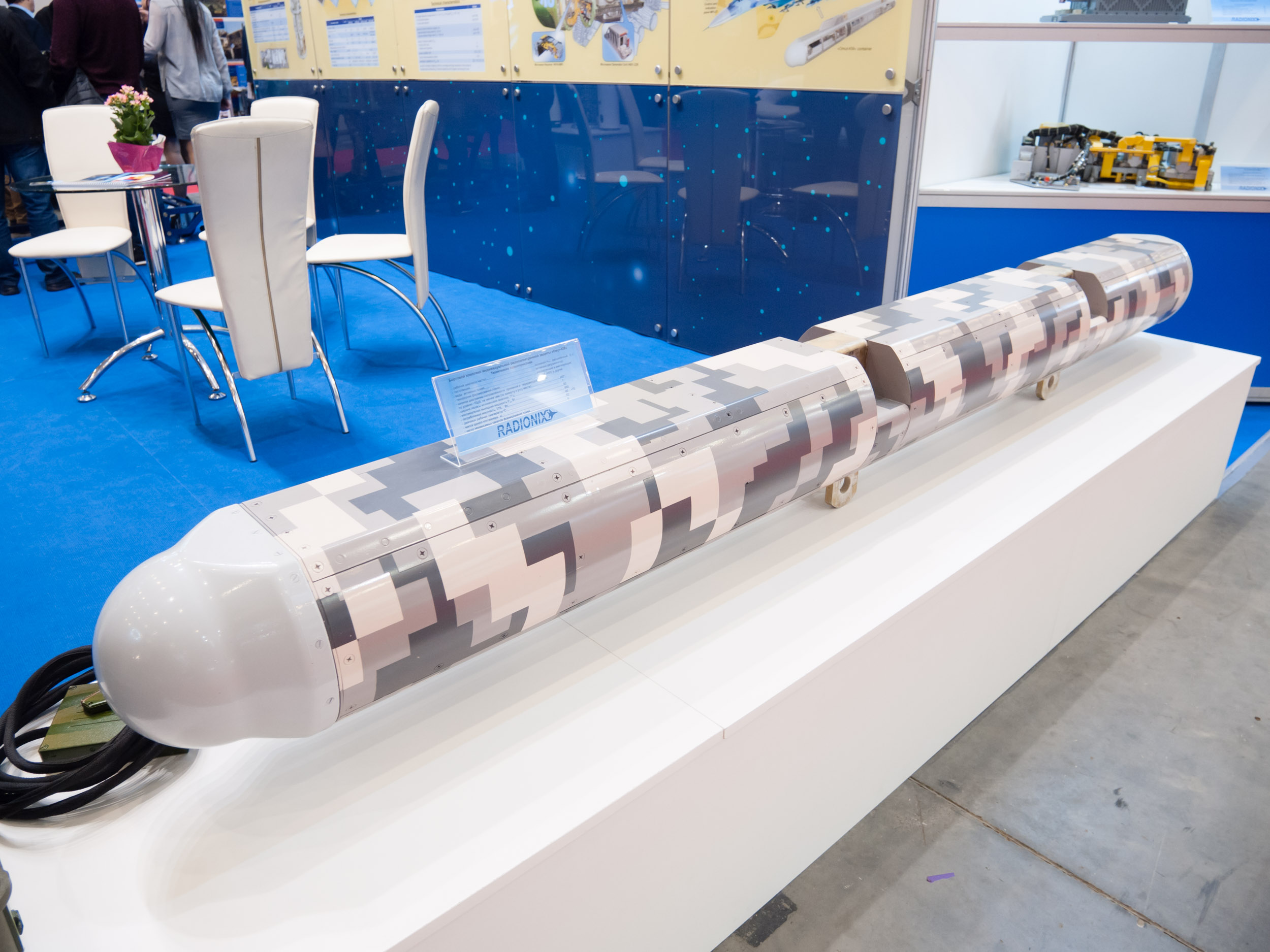 Omut-KM aircraft electronic counter-countermeasure system by Radionix, 'Zbroya ta Bezpeka' military fair, Kyiv, Ukraine, 2018